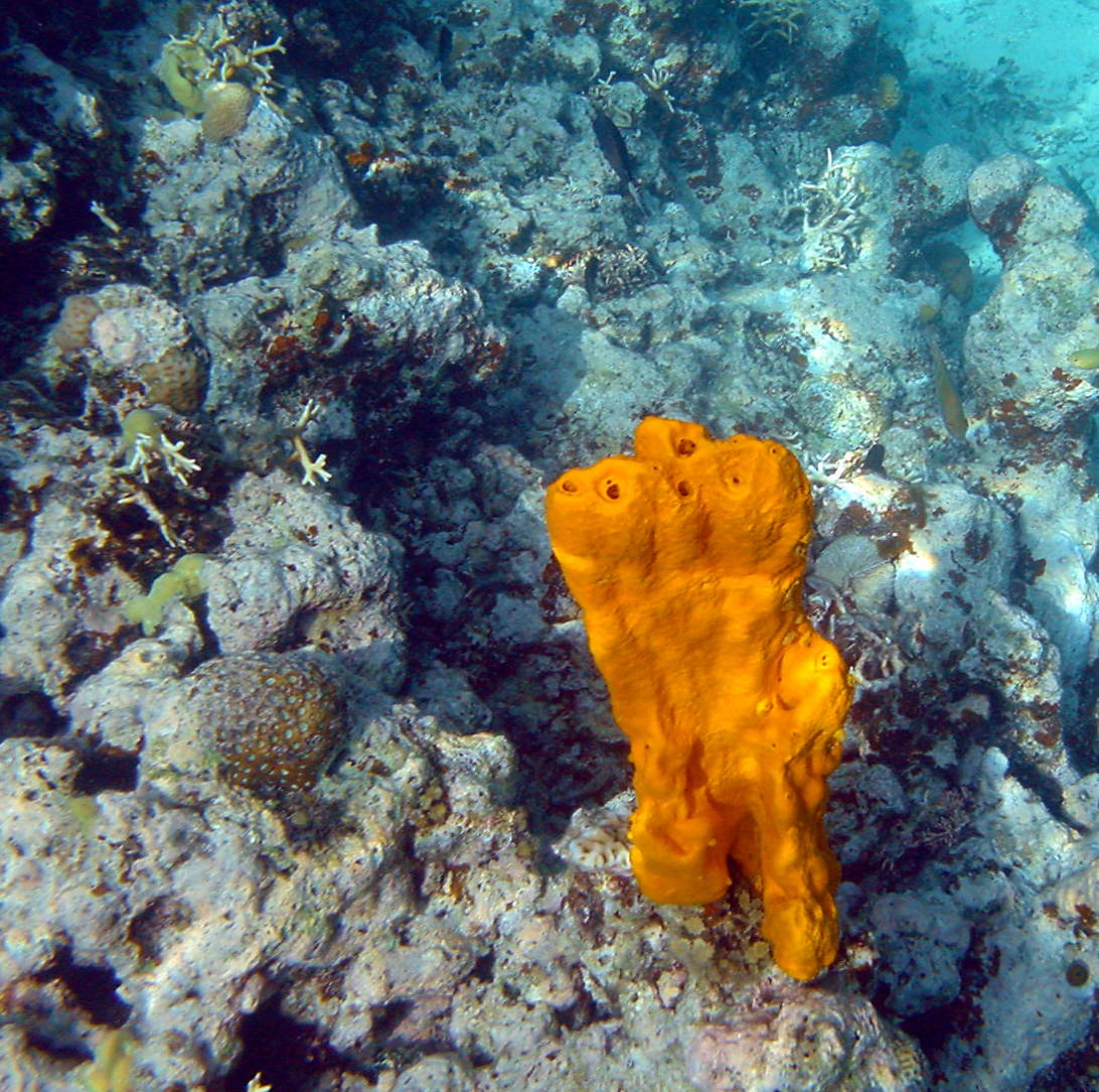 Sponge. The picture was taken in Papua New Guinea